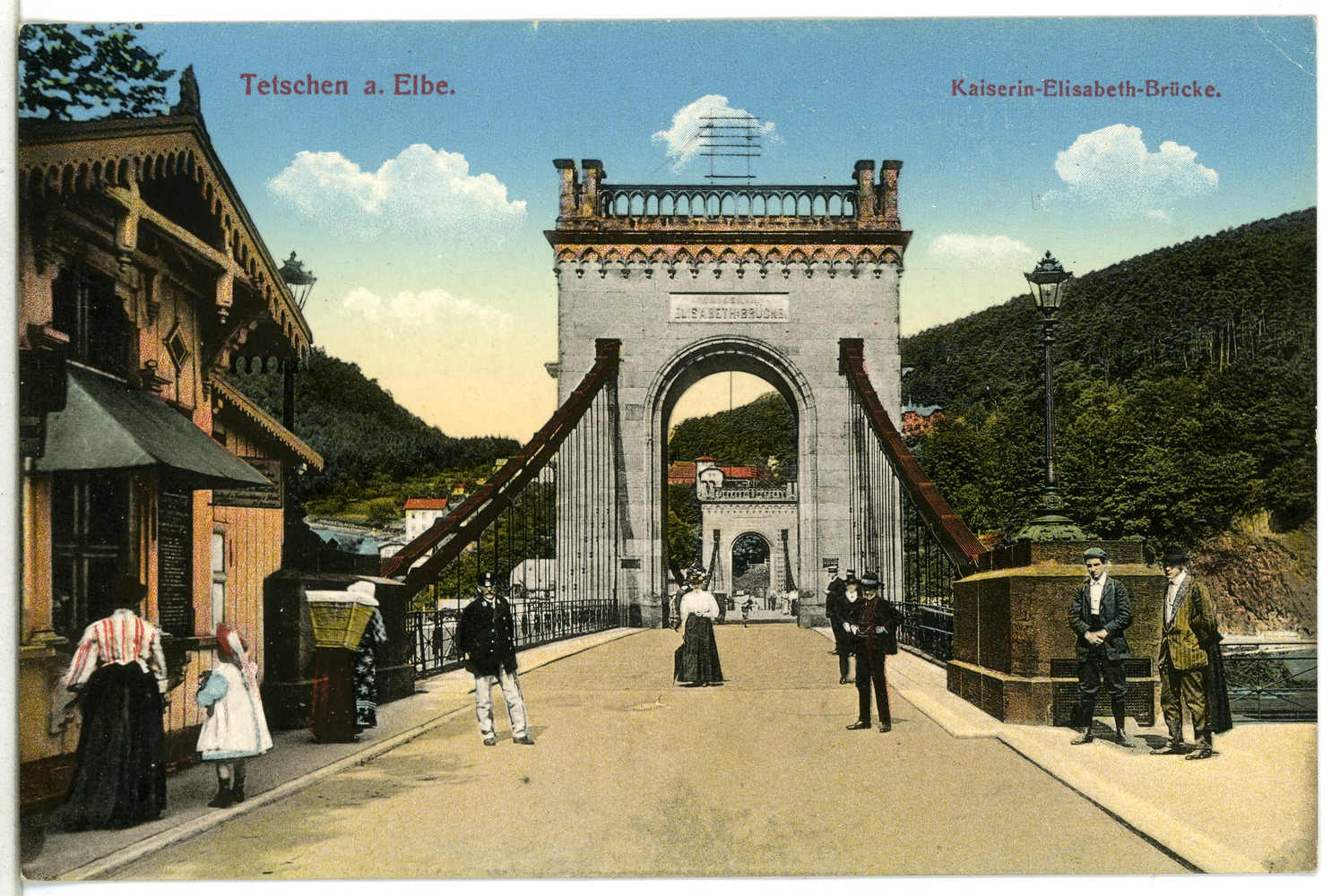 This postcard is from publisher Brück & Sohn in Meißen ( This postcard has a unique number 12004 and is available in a higher resolution at the publisher. This images was uploaded in a cooperation project between Wikipedians and the publisher.